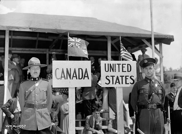 1. "OIL PIPELINE - HIGHWATER, P.Q. A Royal Canadian Mounted Police officer and a State Trooper are on duty on their respective sides of the border as welders from both countries connect the 236-miles (sic) pipeline connecting a tanker terminal at Portland, Maine, and refineries at Montreal, Que. (Inscription) 2. A Royal Canadian Mounted Police Officer stands in front of a sign marked "Canada" while to his left a State Trooper stands in front of a sign marked "United States" before the official ceremony commemorating the joining of the pipeline of an oil tanker terminal, Portland, Maine, with refineries in Montreal, Quebec.